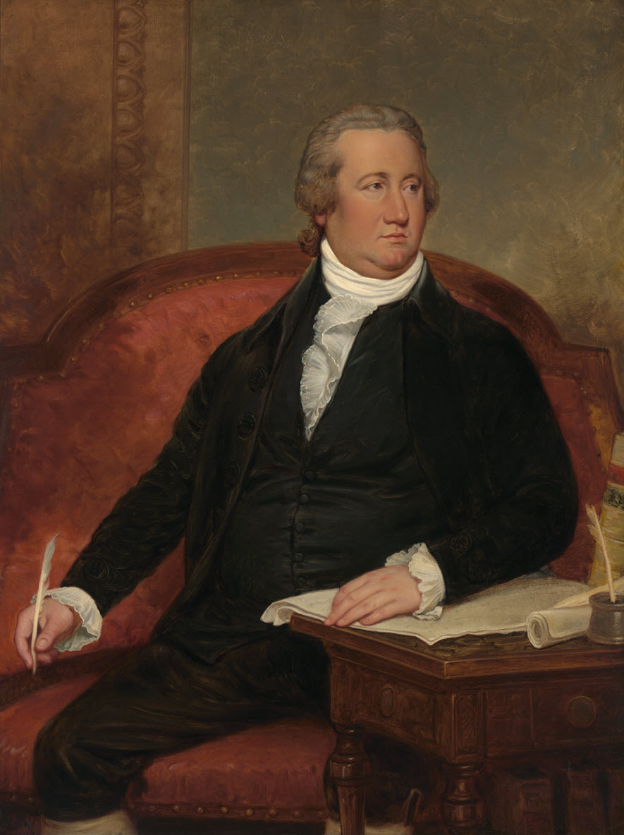 Copy of Joseph Wright's 1790 portrait of Frederick A. C. Muhlenberg. Muhlenberg served as the first Speaker of the U.S. House Representatives.Waugh painted this copy 80 years after Muhlenberg's death. Note that Waugh changed background and the color of the chair's upholstery.